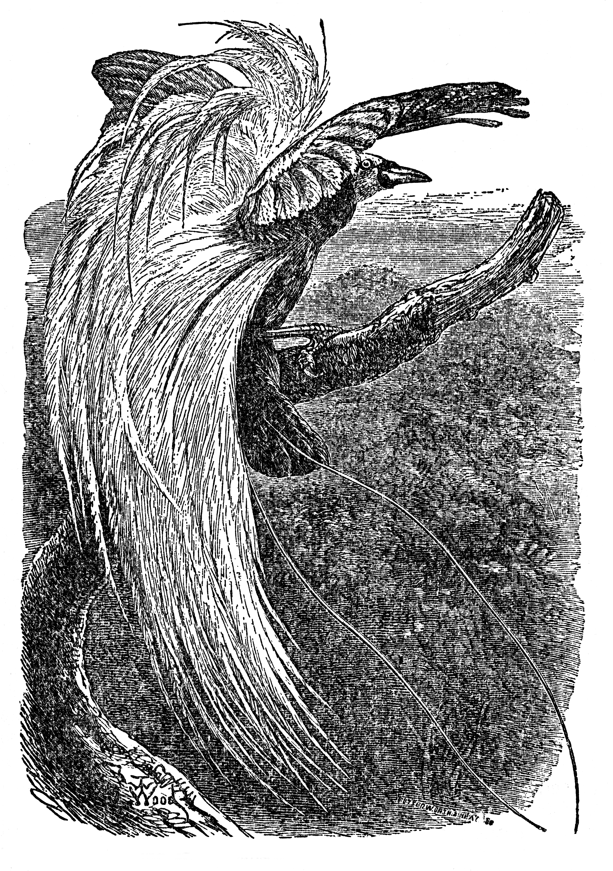 Paradisaea papuana, Scan of Figure 47, from Darwin's Descent of Man, second edition.